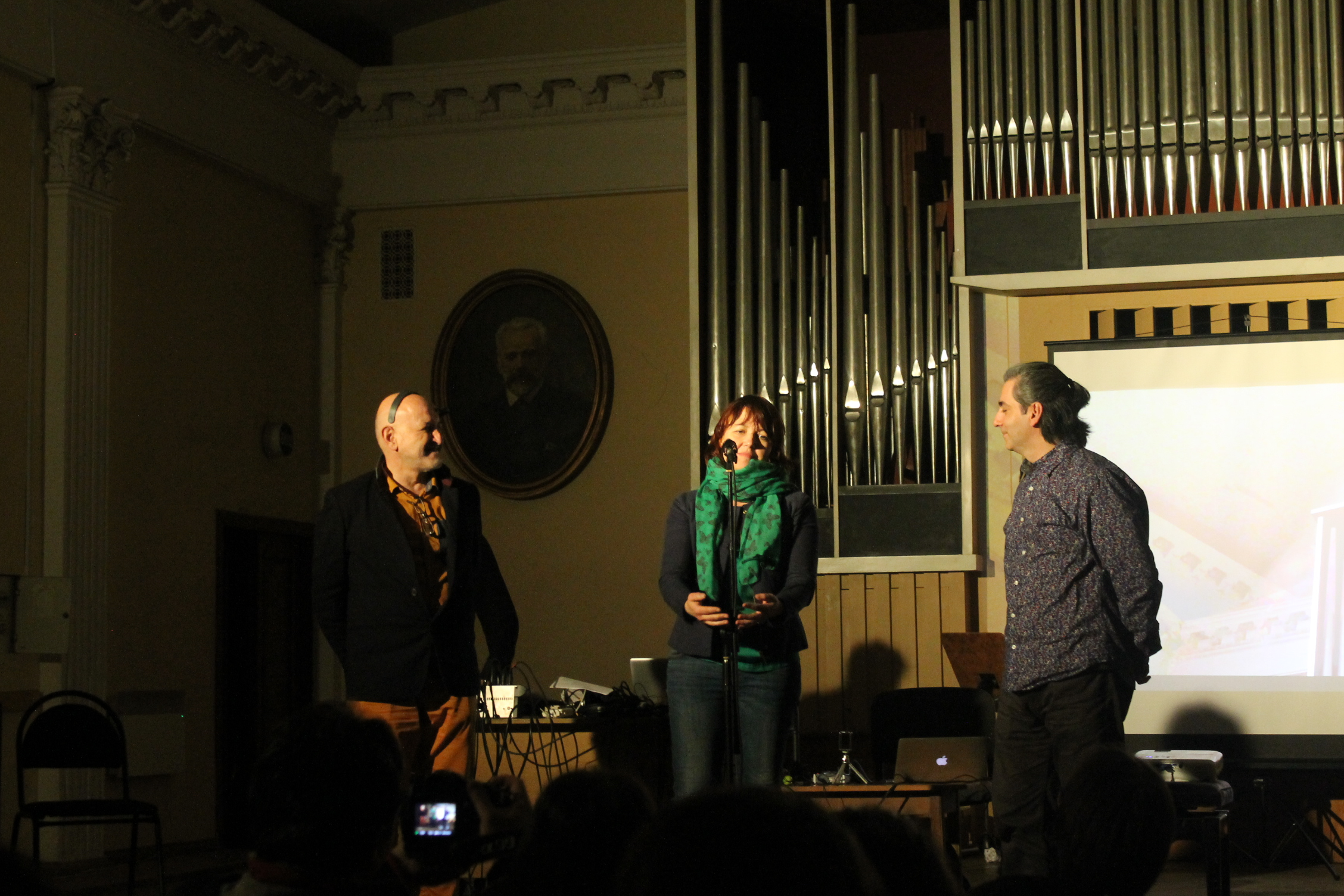 Marek Chołoniewski, Alla Zagaykevich and Panayiotis Kokoras in Kyiv, 2017